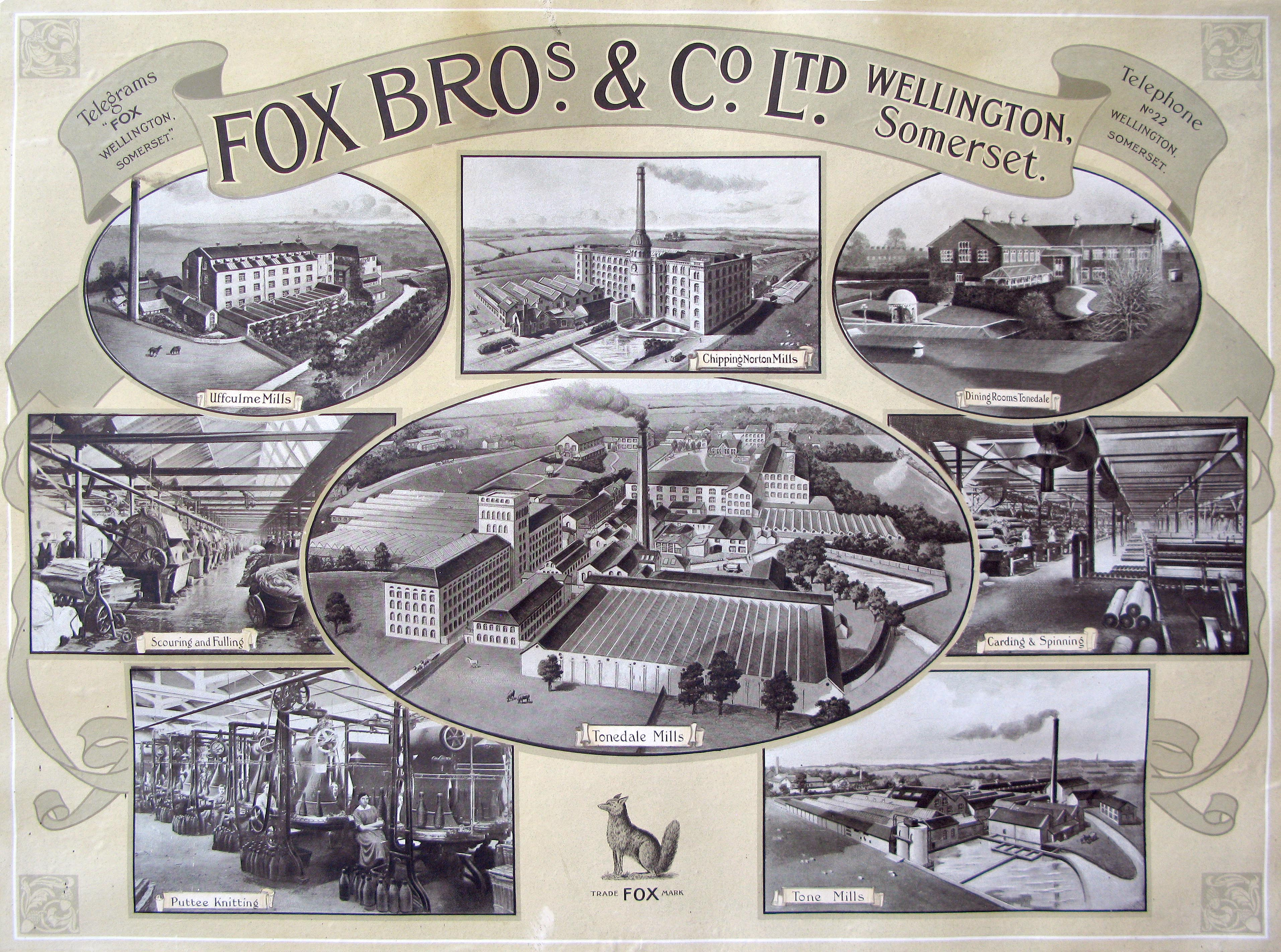 History of fox